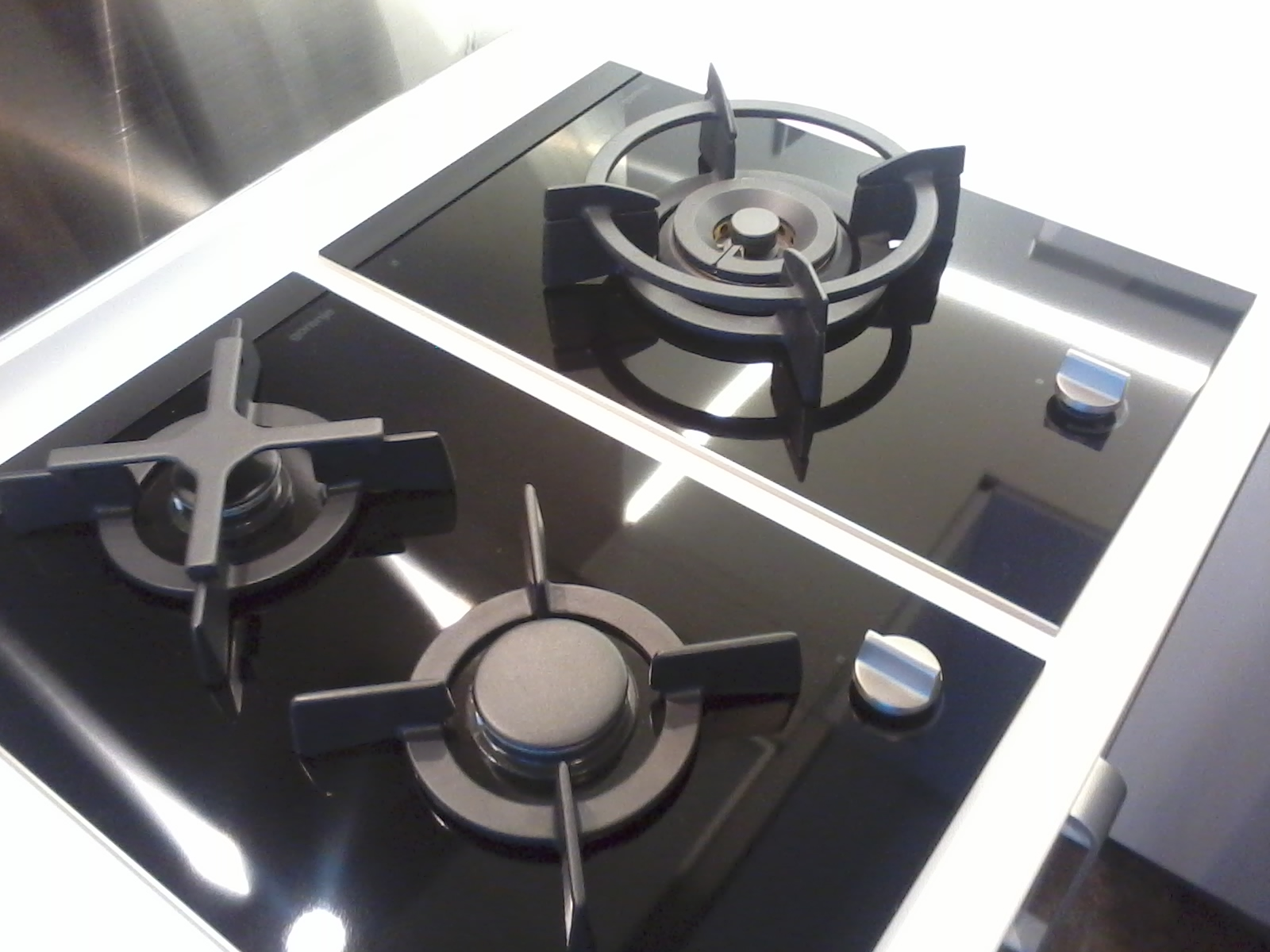 2012年10月, 香港zh:新界 烏溪沙 溪沙路 8號, 迎海, Double Cove Show Flat, 21th Floor, IFC One, Central, Hong Kong